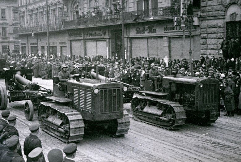 Red Army troops in Lviv (1939)